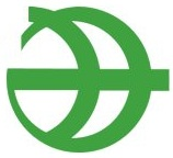 Miyota Nagano chapter